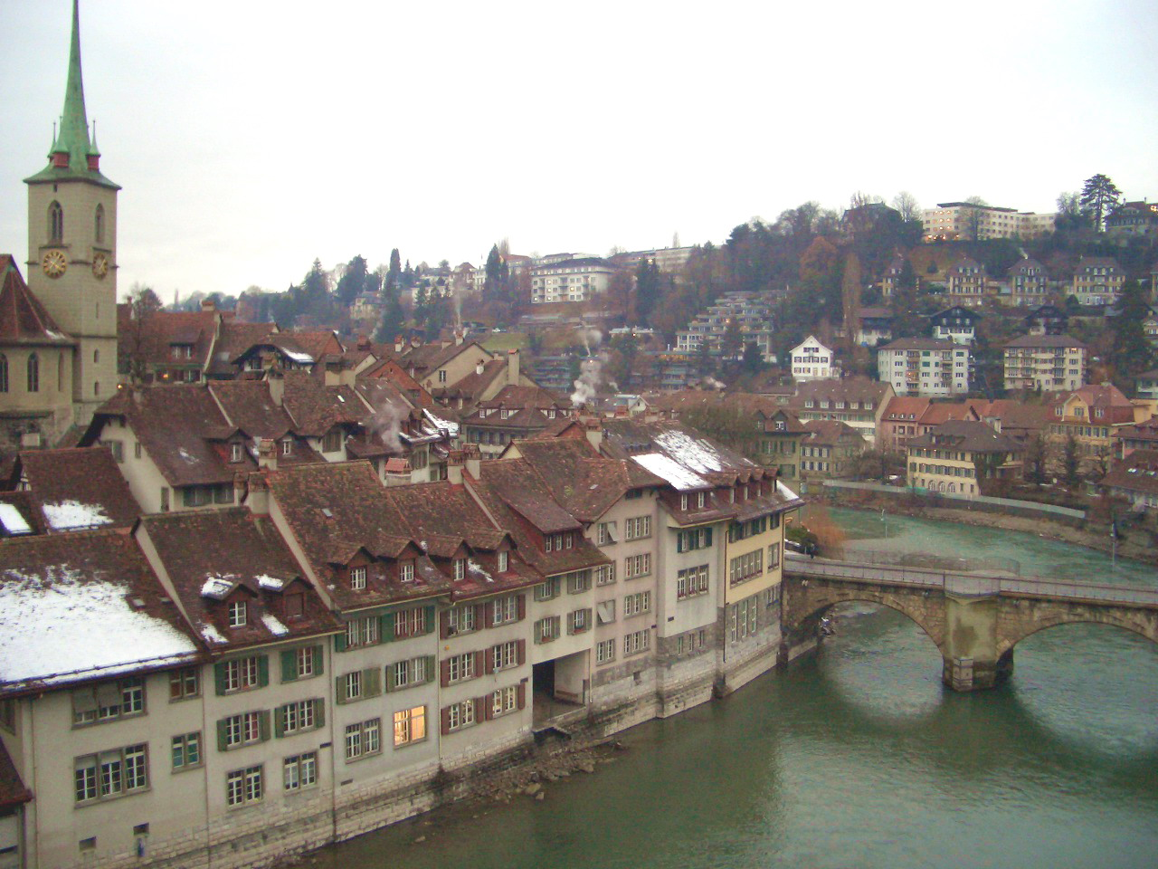 Bern